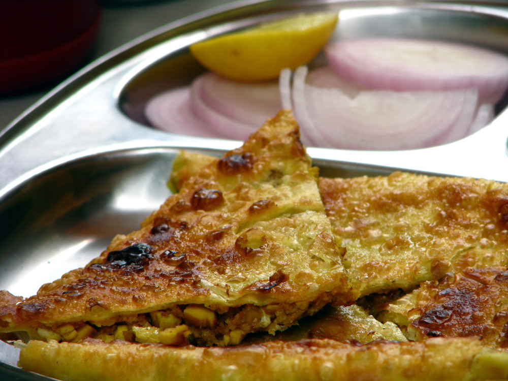 Parantha